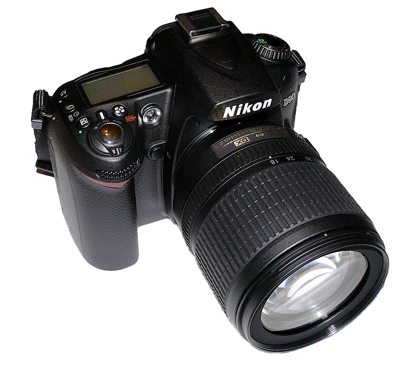 Nikon D90, with AF-S DX NIKKOR 18-105mm f/3.5-5.6G ED VR lens